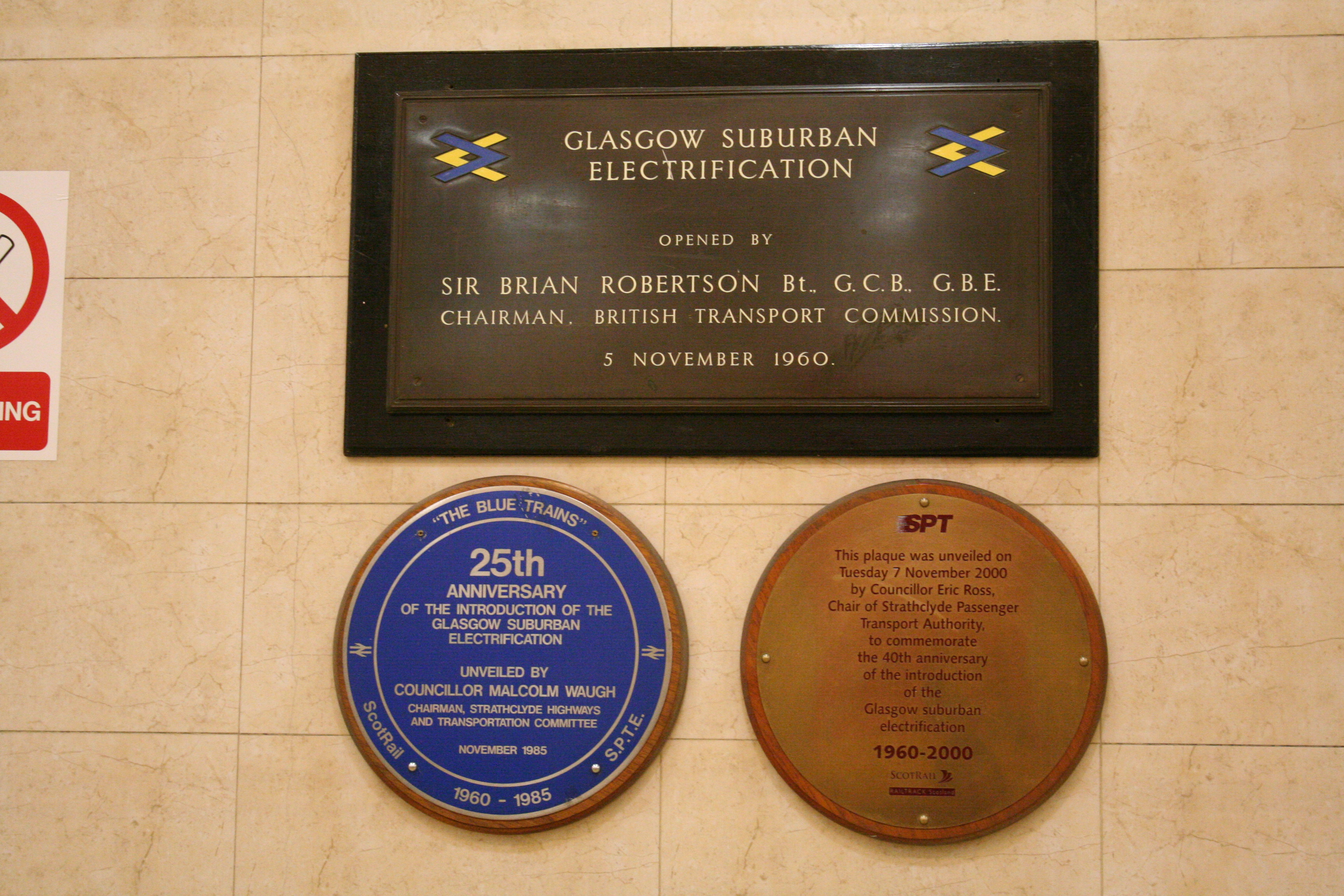 Commemorative plaques at Glasgow Queen Street (Low Level - platforms 8 & 9) for the Glasgow Suburban Electrification on 5 November 1960, with 25th Anniversary Plaque (November 1985) and 40th Anniversary plaque dated 7 November 2000.